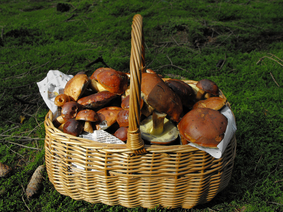 You like this photo? Just take it – it’s provided under the creative commons license.